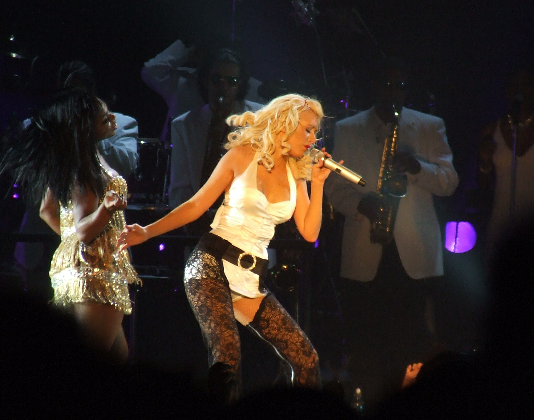 Christina Aguilera sings "Can't Hold us Down" in Dublin, Ireland in November 2006